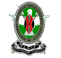 Emblem of Kenyan IntelligenceKiswahili: Nembo ya NSIS